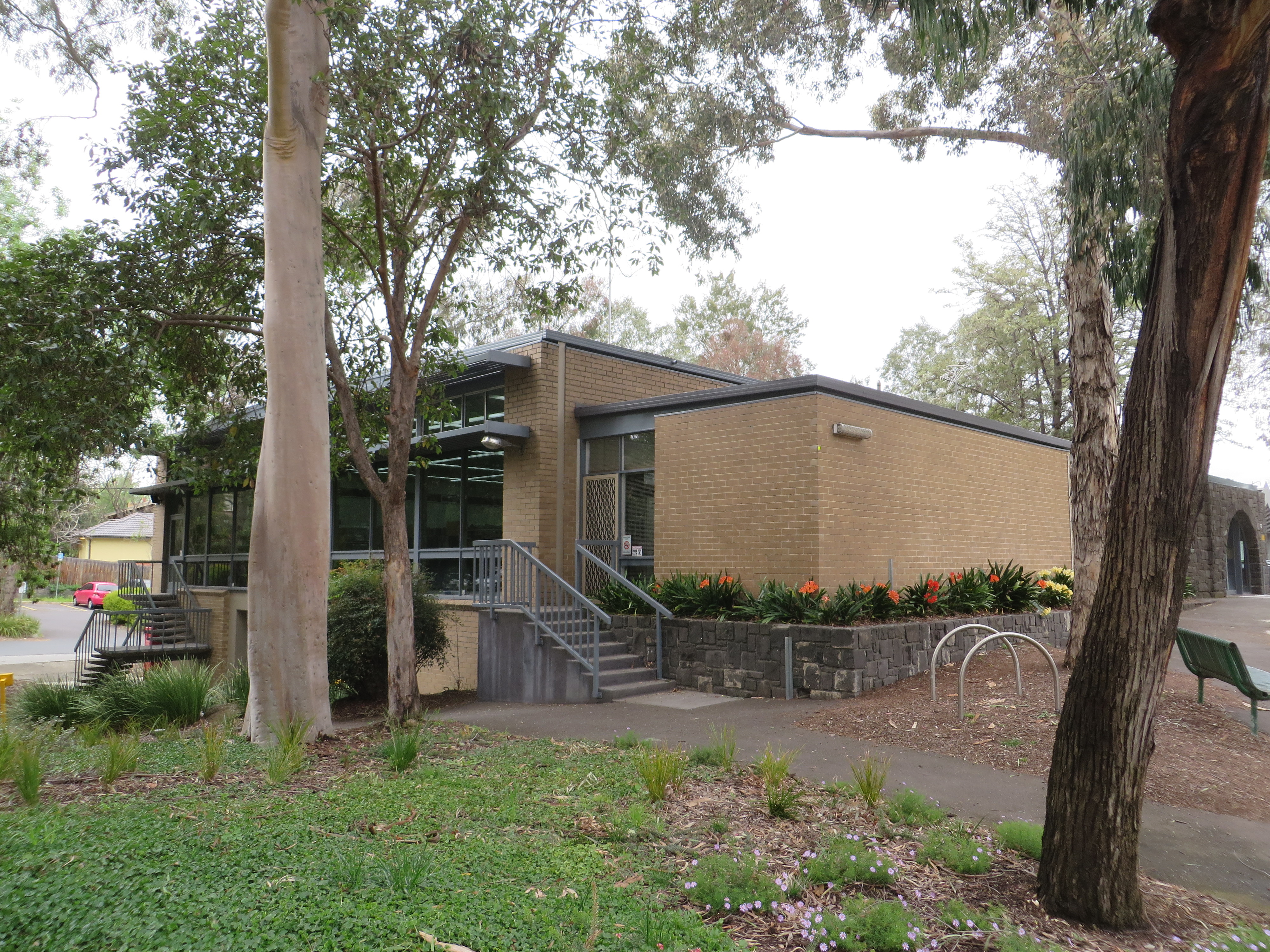 Rosanna Library, Turnham Avenue, Rosanna, Victoria, Australia